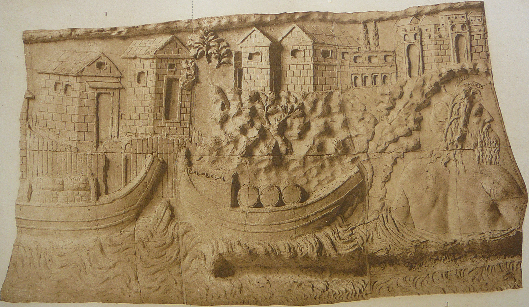 River-traffic on the Danube frontier (scene II); Danube landscape (scene III)